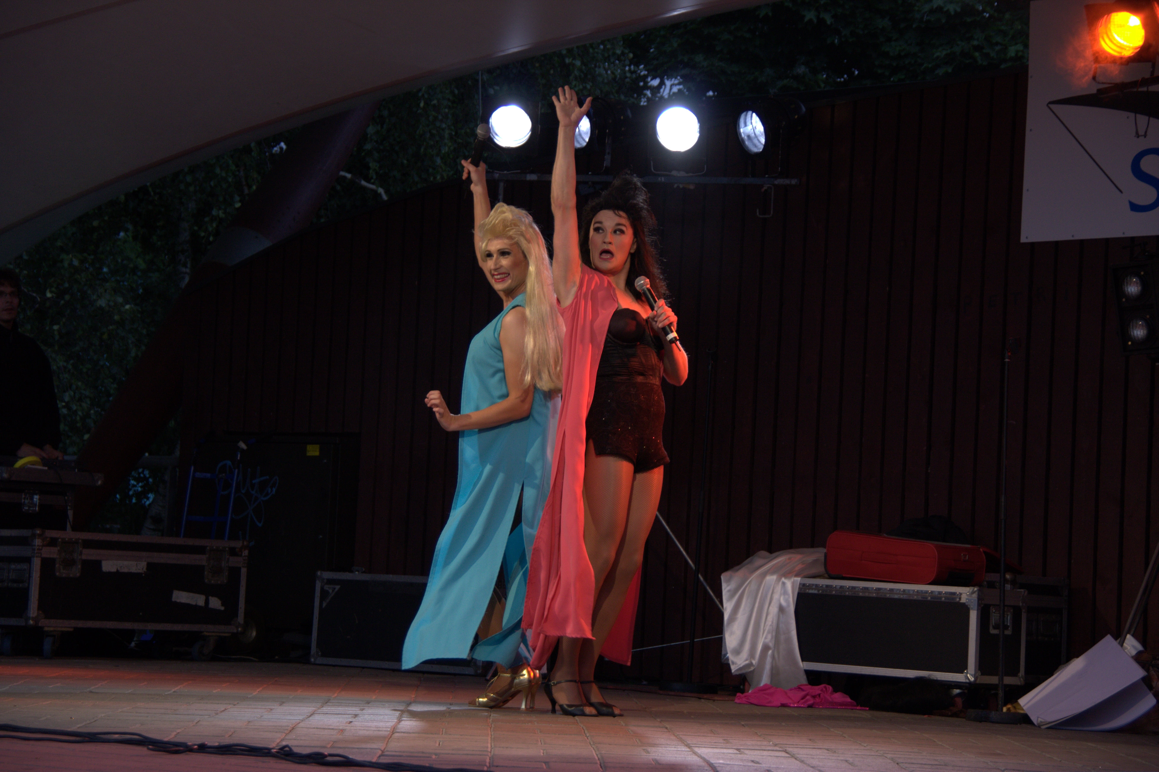 Finland 12 poits drag show group